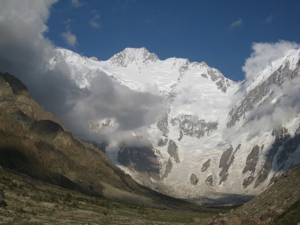 Diamir face (west face) of Nanga Parbat (8125 m)